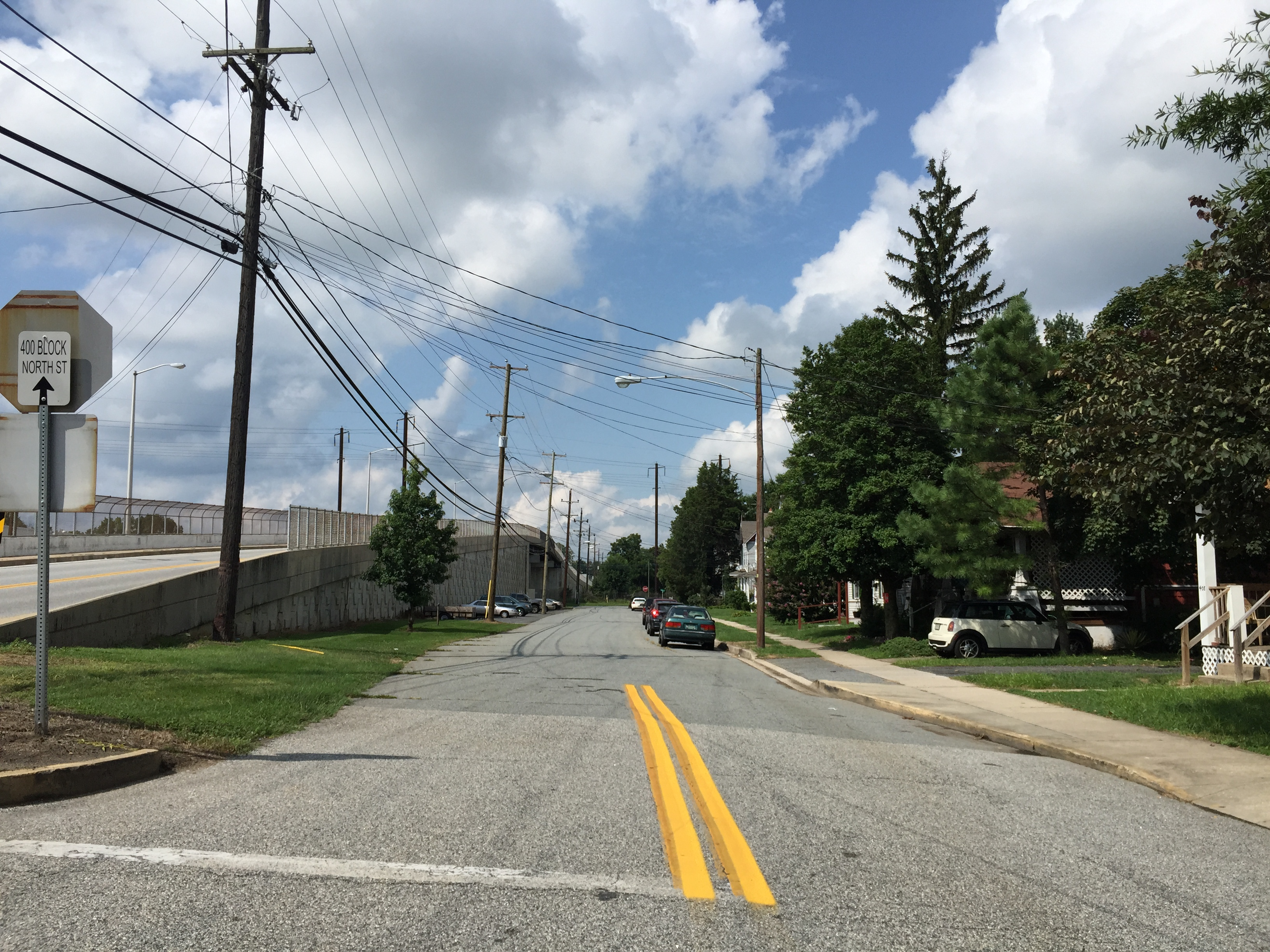 View north along Maryland State Route 727 (Old North Street) at Maryland State Route 268 (North Street) in Elkton, Cecil County, Maryland